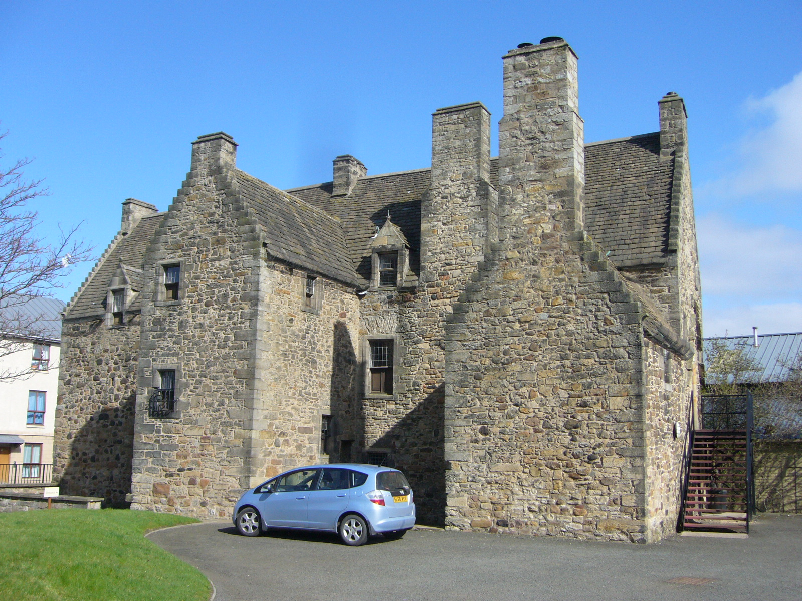 Stenhouse, Edinburgh. An early 17thC merchant's house, built by the Stenhope family in 1623 and extended by a subsequent owner, Patrick Ellis, the City Treasurer. He added the protruding central wing and a further extension with forestairs seen on the right. Time has been unkind to the house which has had to be rescued more than once. By 1900, it had become a sub-divided slum dwelling, rented out to labourers. Shortly before the Second World War it was acquired by the National Trust, but during the war years fell again into disrepair. By the mid-60s it had been fully restored and was for many years used as a restoration workshop by the Ancient Monuments Division of the Scottish Development Department (which became Historic Scotland in the late-1980s). It is currently occupied by administrative staff of the Trust.